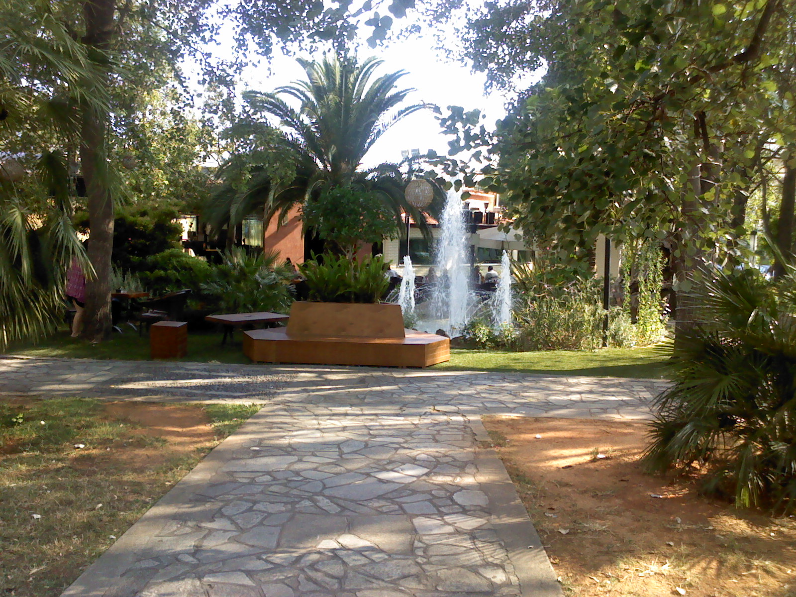 Parko Ilia Iliou Drapetsona